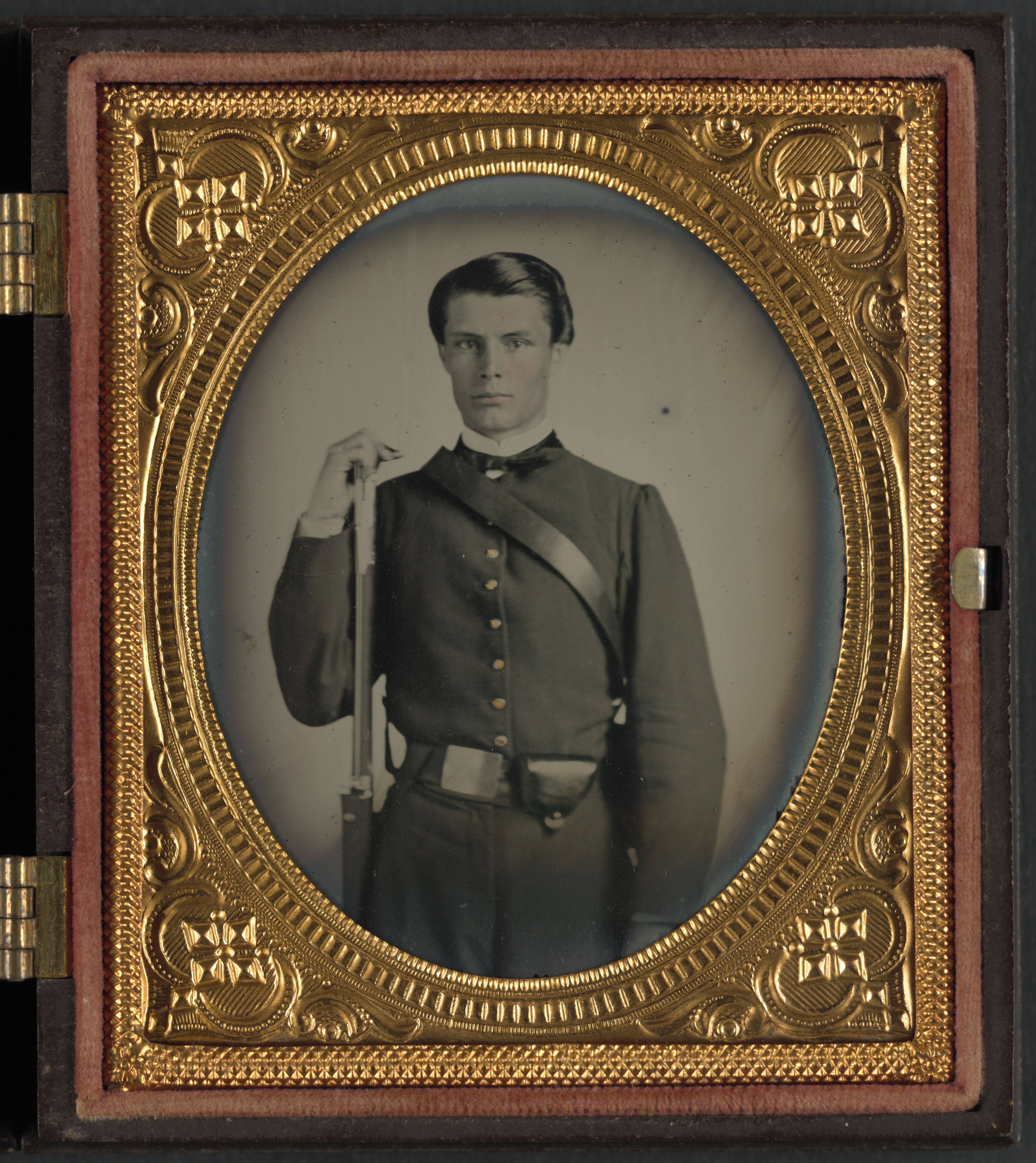 Title: Private J.P. Robertson of Co. I, 12th South Carolina Infantry Regiment, in uniform with musket Abstract/medium: 1 photograph : hand-colored ambrotype ; plate 81 x 69 mm (sixth plate format), case 95 x 83 mm.